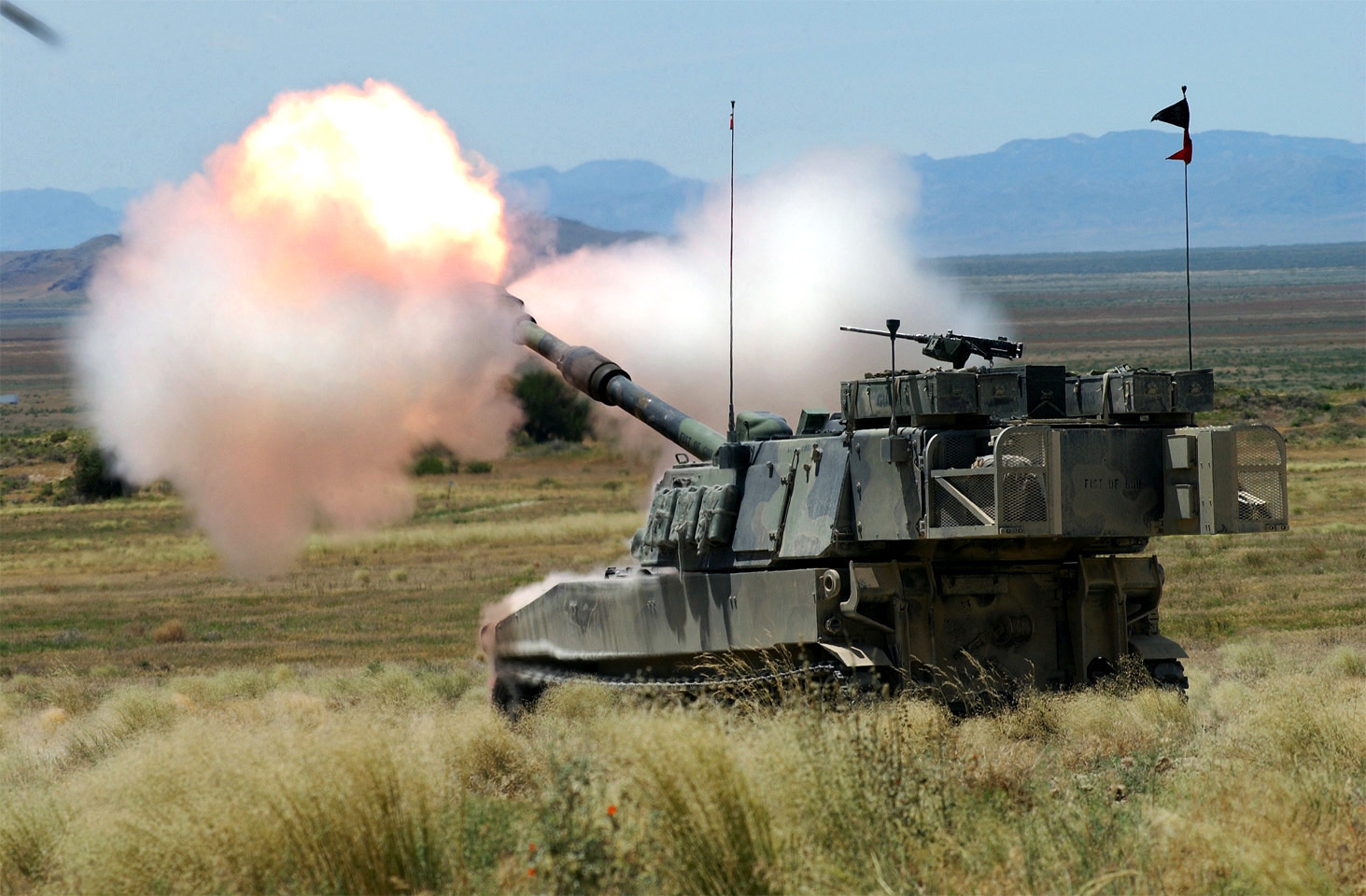 At the Dugway Proving Grounds, Dugway, Utah (UT), the Utah Army National Guard (UTARNG) 2nd Battalion (BN), 222nd Field Artillery (FA) (2/222), Cedar City, Utah (UT), displays the capabilities of its M109A6 Paladin Self Propelled Howitzers during 04 Patriot exercise. Location: DUGWAY PROVING GROUNDS, UTAH (UT) UNITED STATES OF AMERICA (USA)